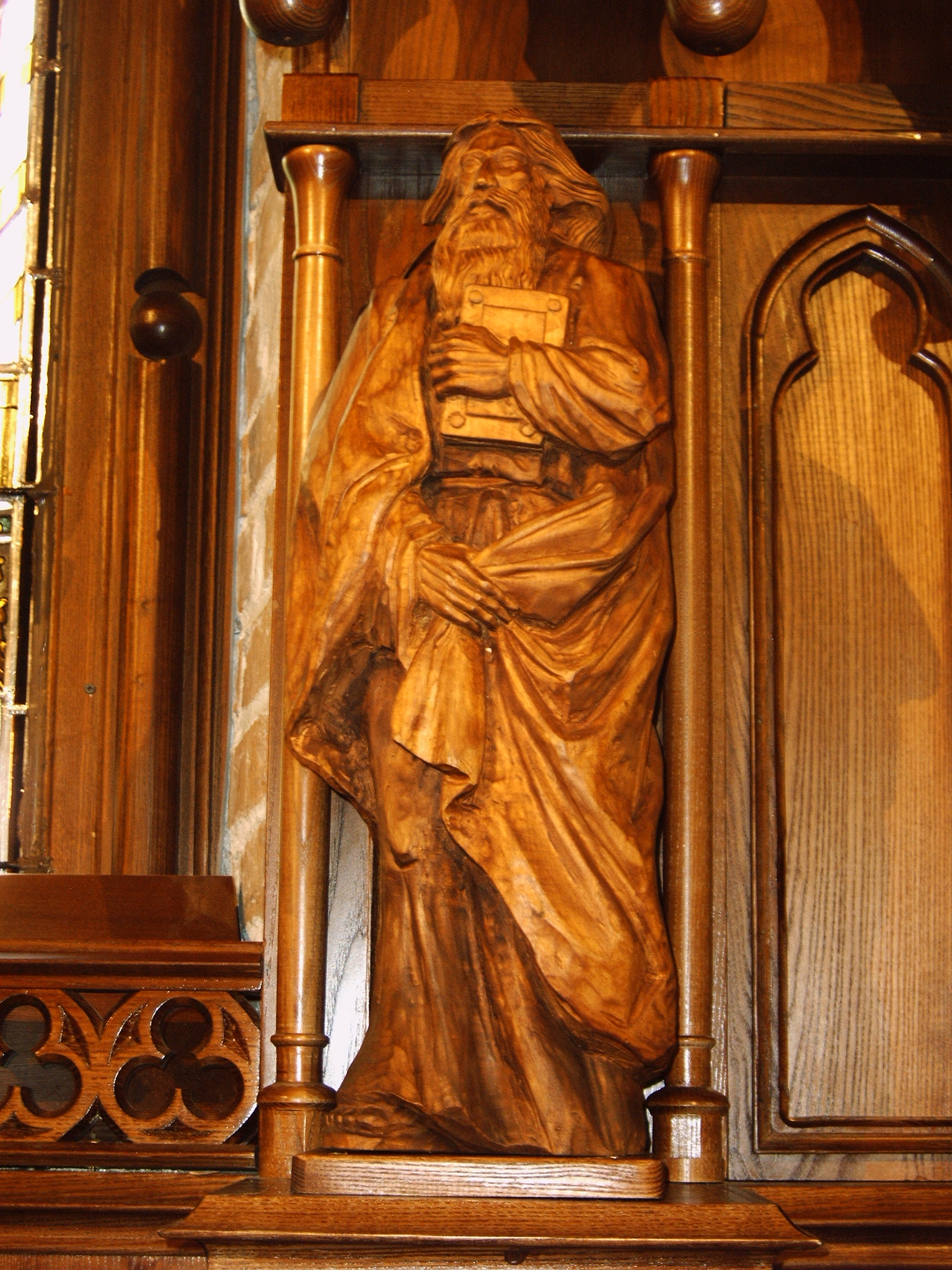 Poland, Mielno, church, Sculpture of Elijah